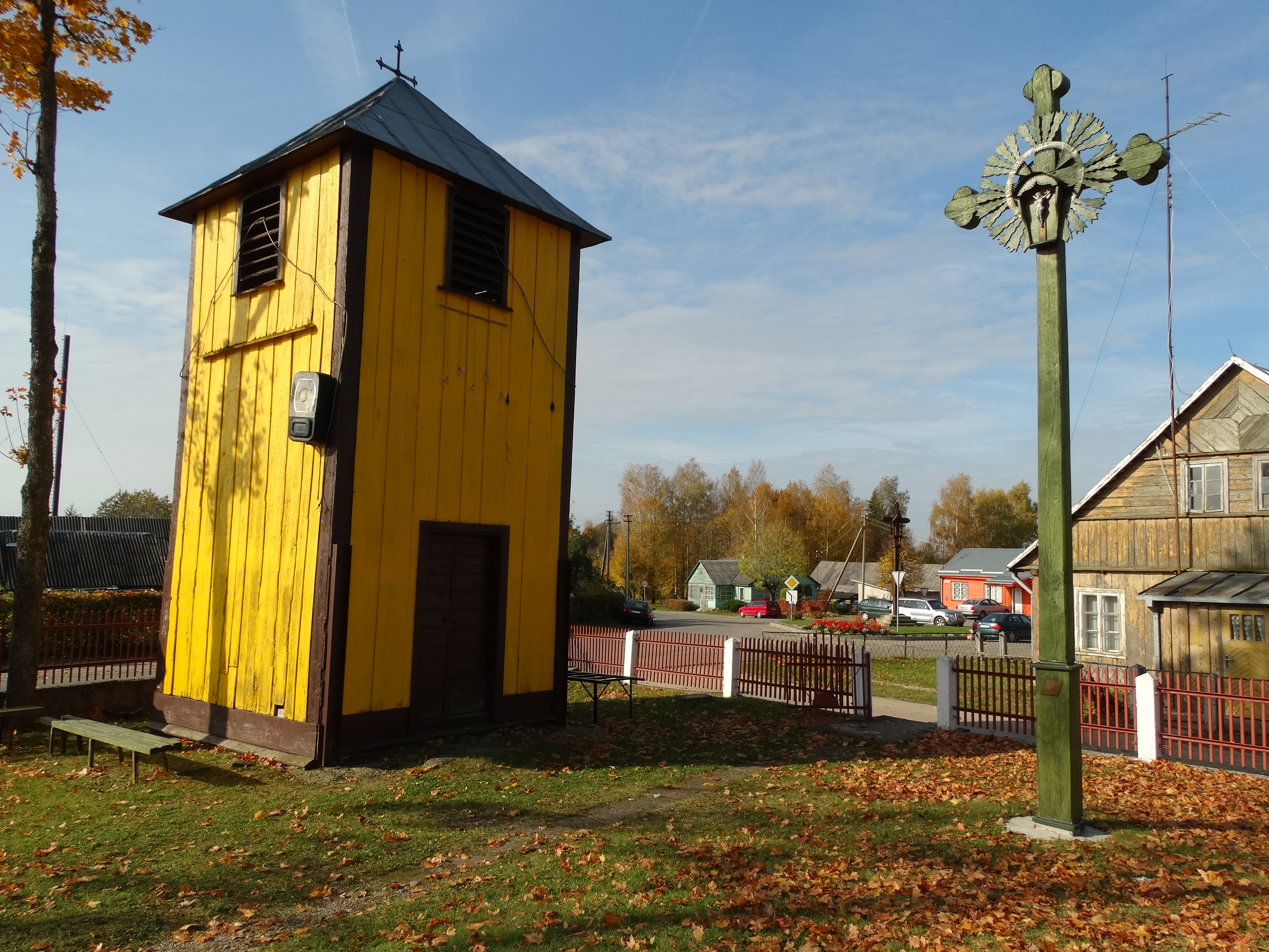 Churchyard, Šventežeris, Lazdijai district, Lithuania